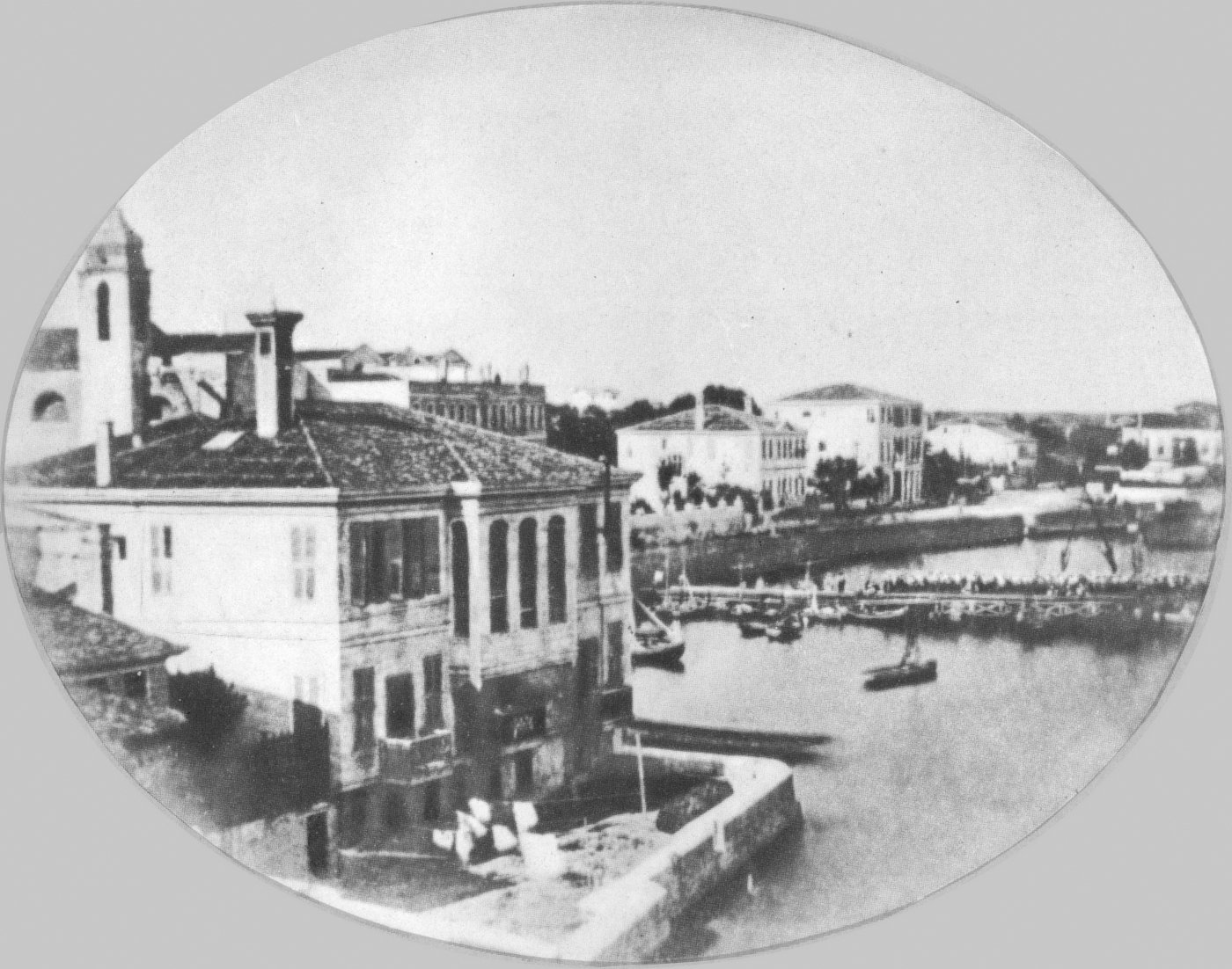 Russo-Turkish War (1877–1879)